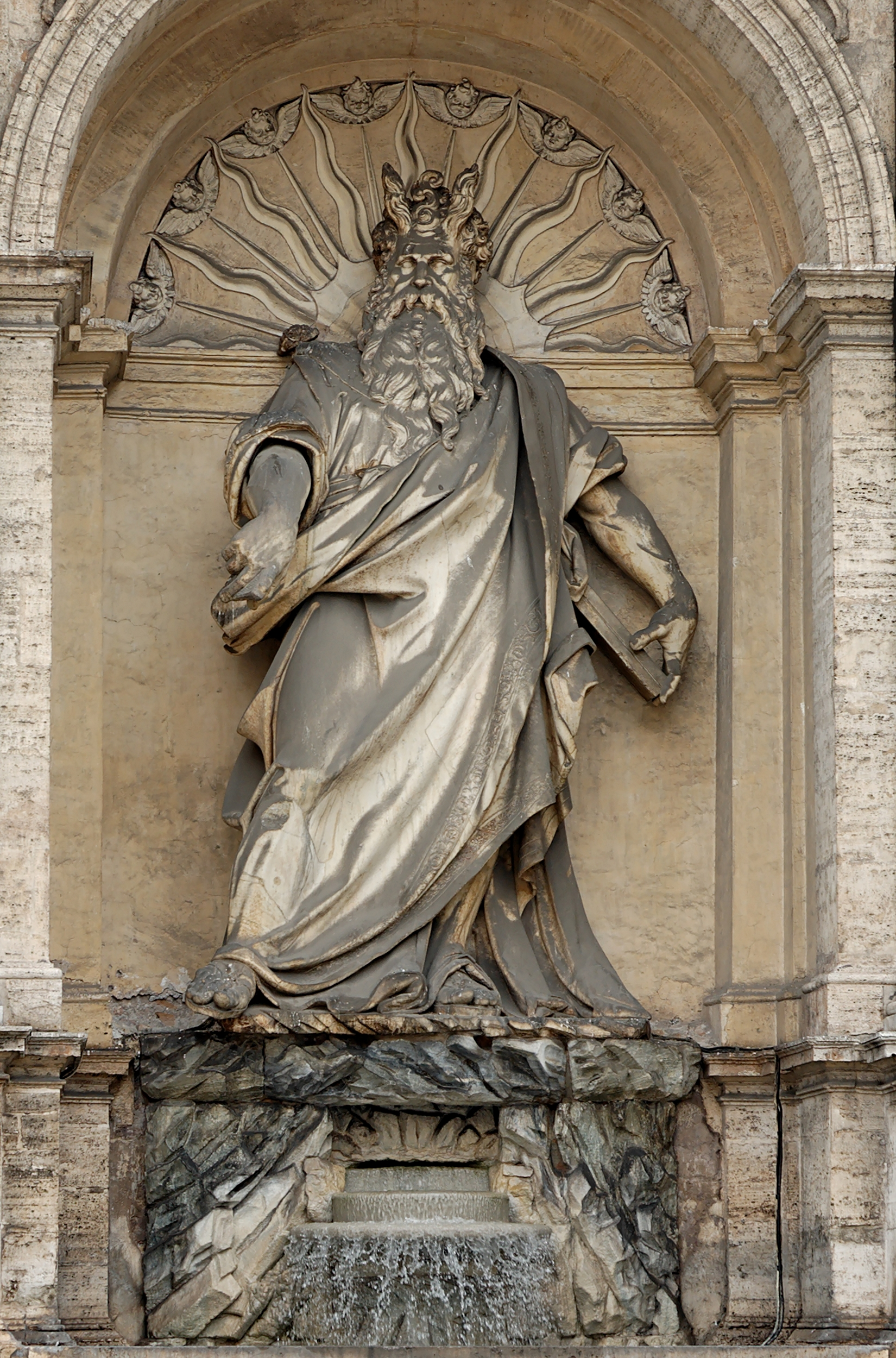 Statue of Moses by Leonardo Sormani and Prospero Antichi. Acqua Felice fountain, via V.E. Orlando in Rome.